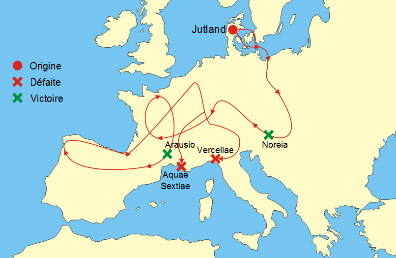 Based on Bild:Kimbern Teutonen Wanderung.png Author: User:Tzzzpfff Version with German captions: Image:Kimbern Teutonen Wanderung.png Version with Italian captions: Image:Cimbrians and Teutons - it.png